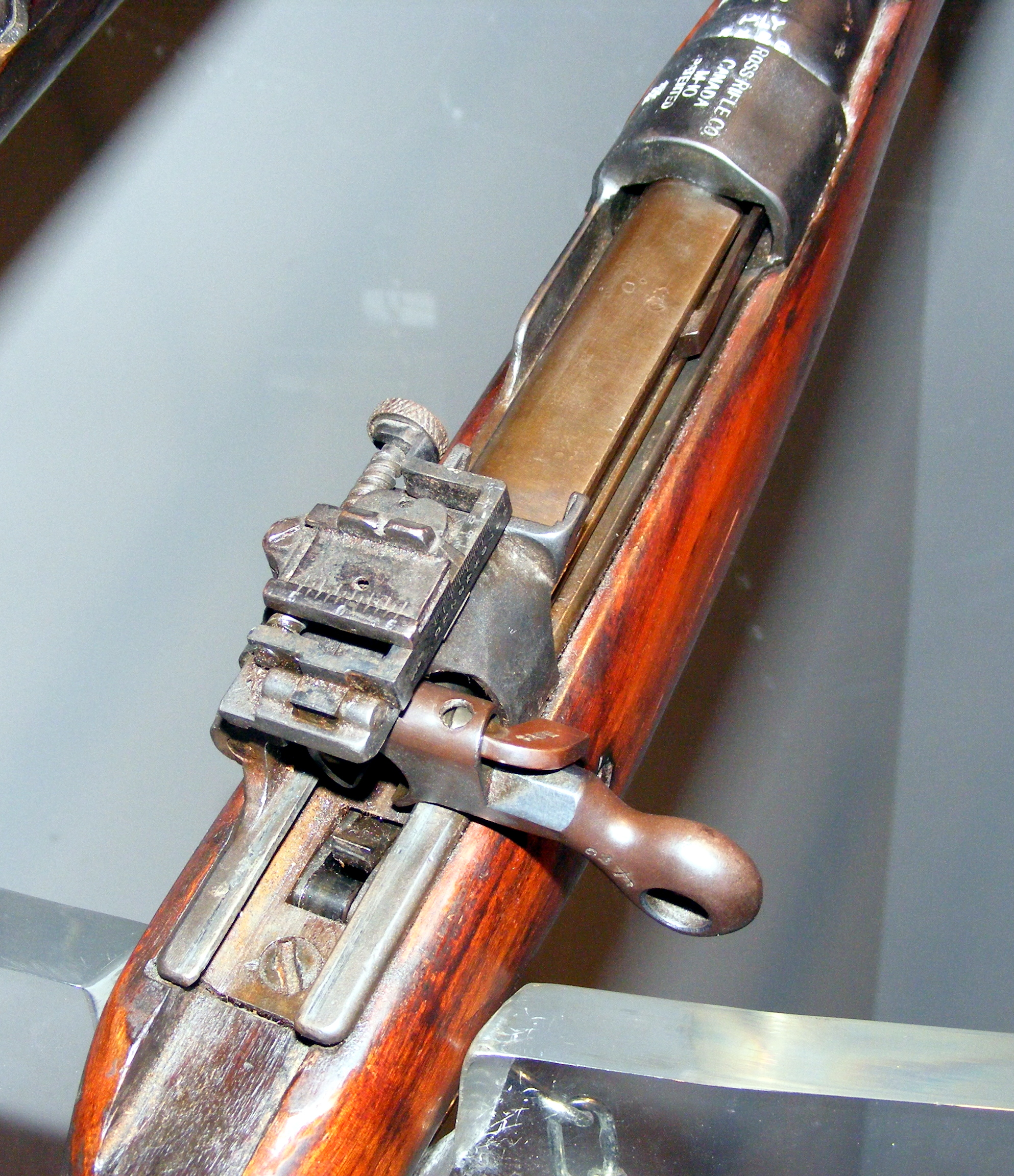 Canadian Ross Rifle, displayed at the Royal Canadian Regiment Military Museum in London, Ontario. The stamp on the rifle itself indicates that this is the M-10 version (i.e. Mk. 3). Source: Photo by me, User:Balcer.